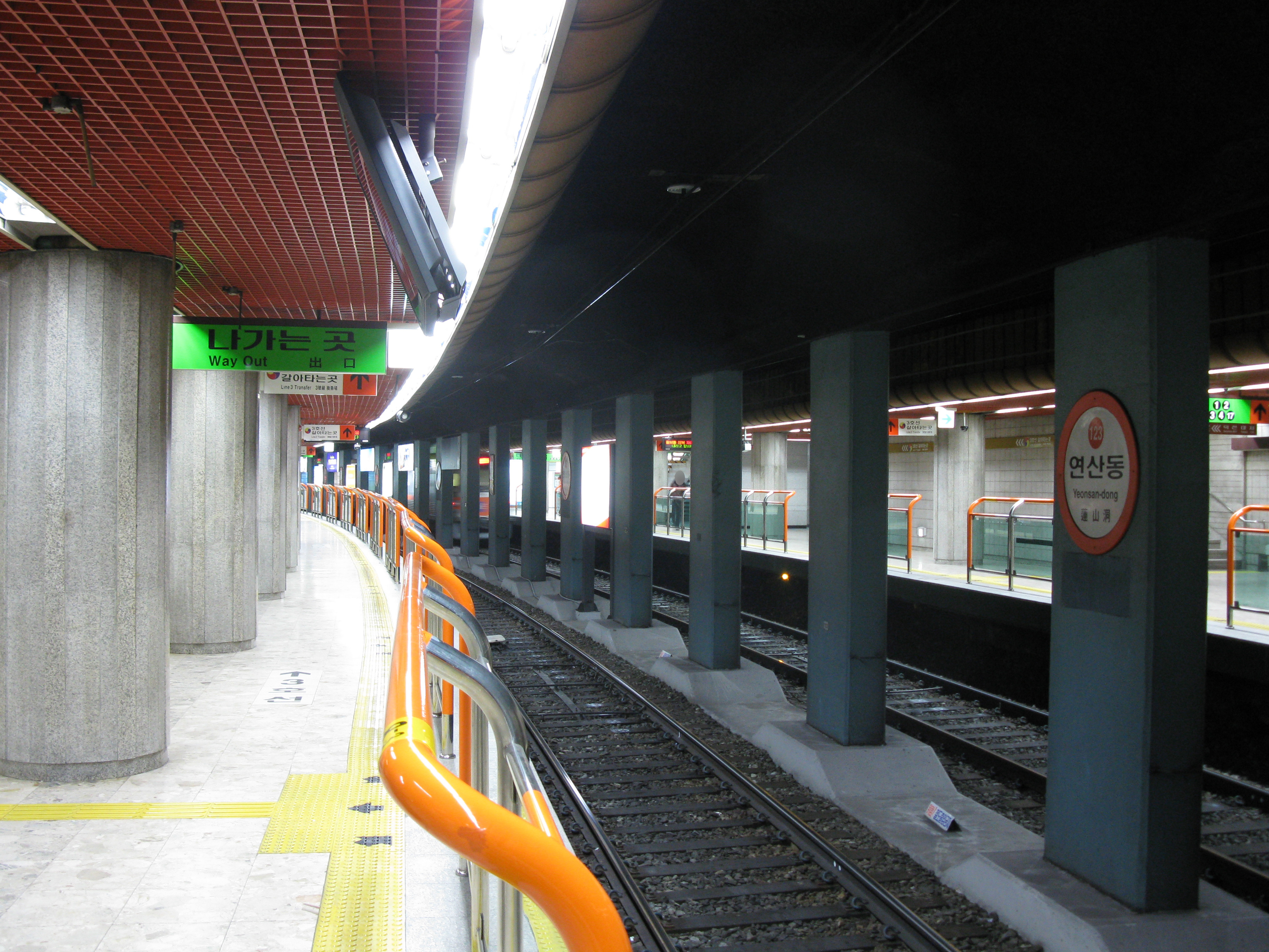 Yeonsan-dong Station platform (Busan Subway Line 1)